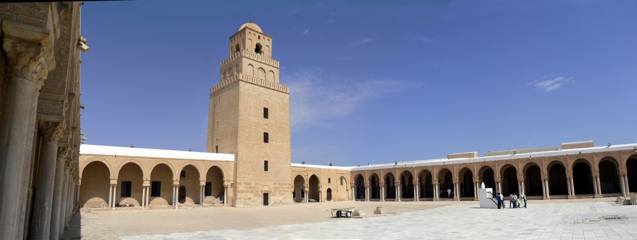 Panoramic view of the courtyard of the Great Mosque of Kairouan (Tunisia).